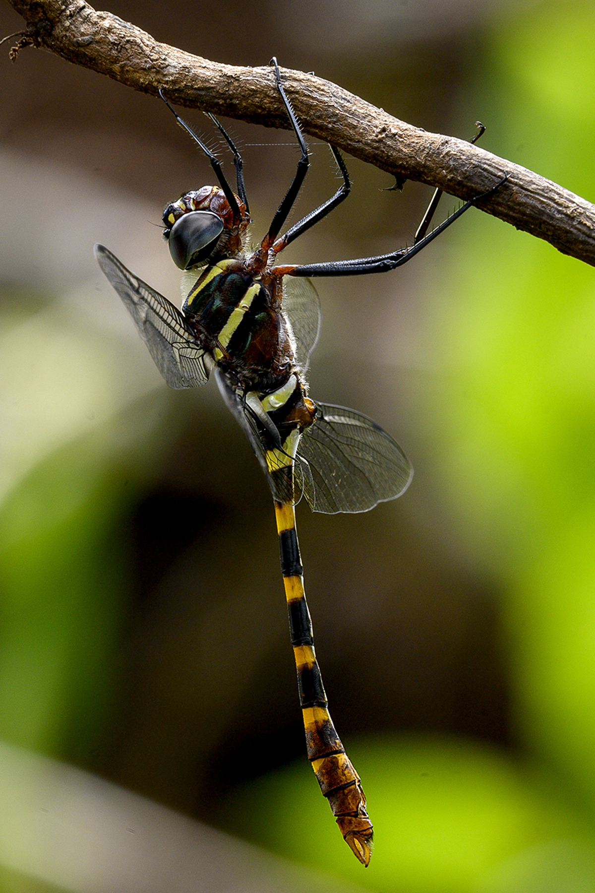 Epophthalmia frontalis Male